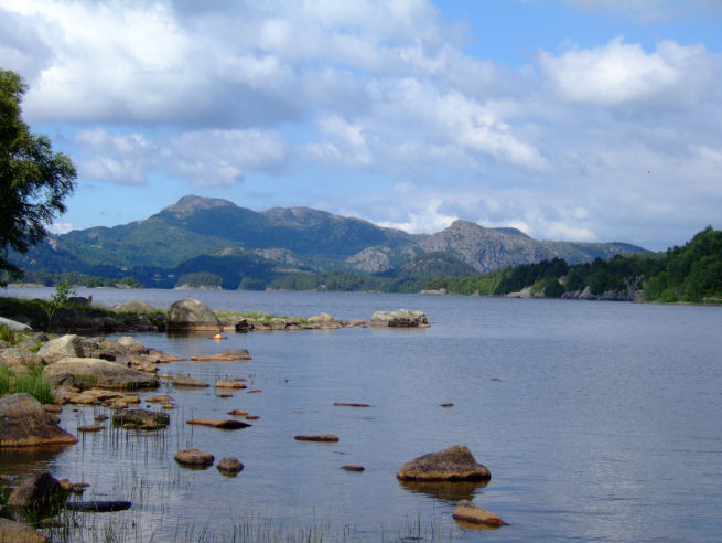 Storavatnet, Sandnes, Rogaland, Norway